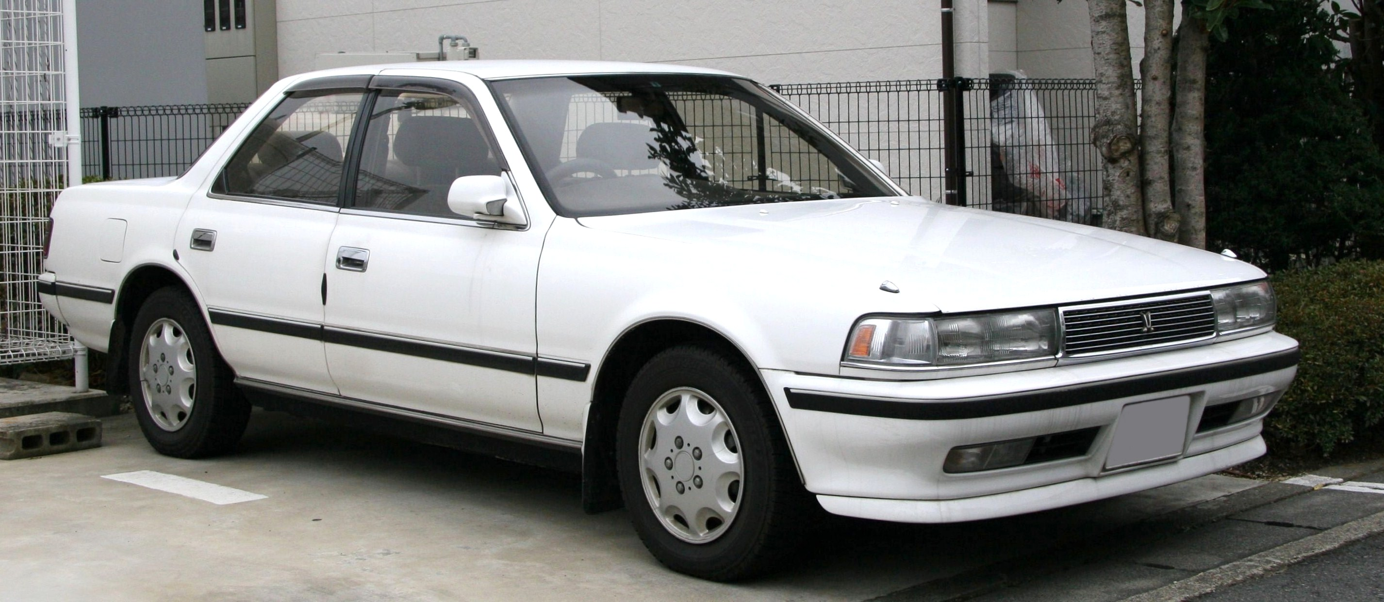 Toyota Cresta